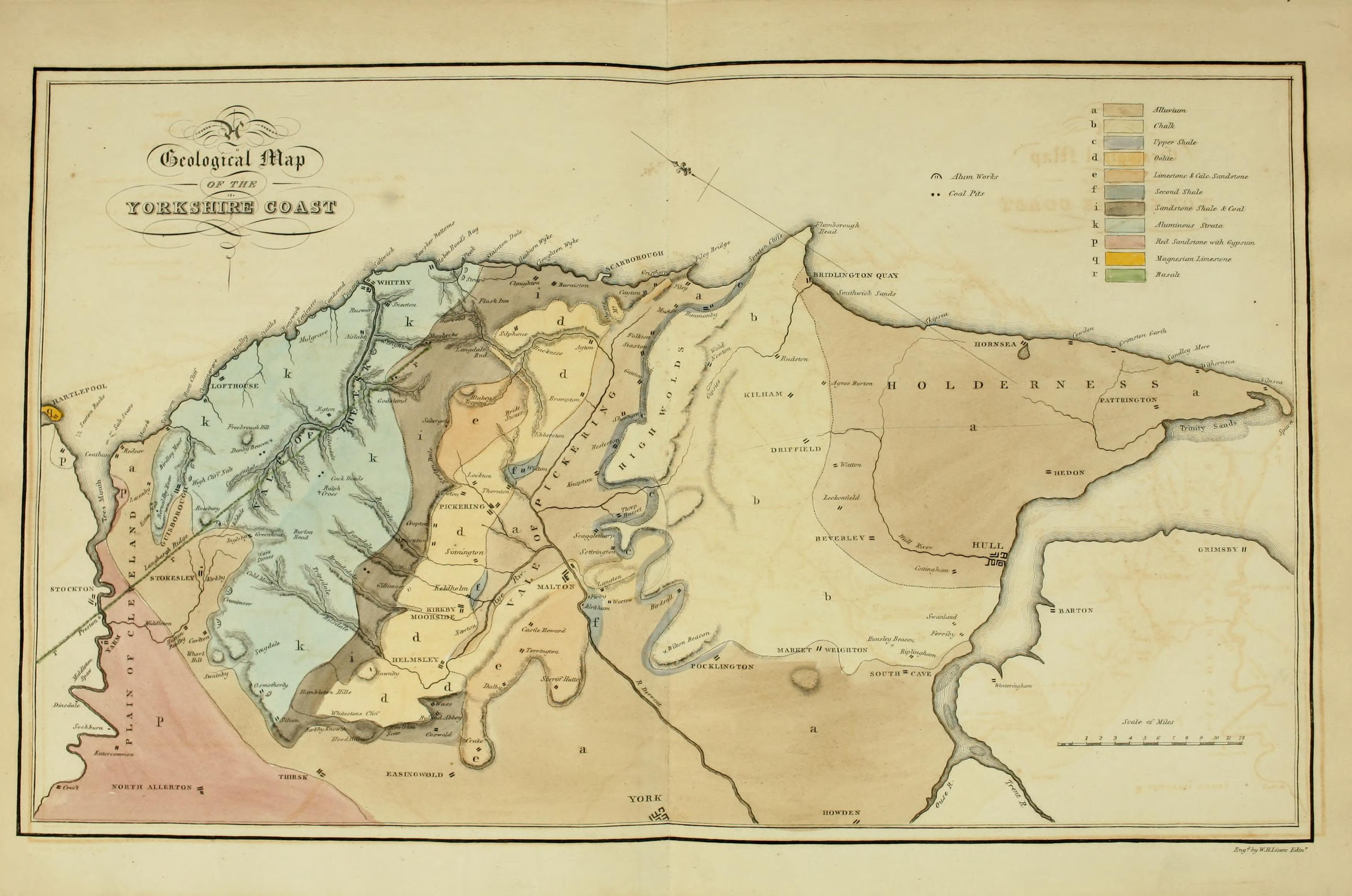 A geological survey of the Yorkshire Coast : describing the strata and fossils occurring between the Humber and the Tees, from the German ocean to the plain of York / by George Young and John Bird.